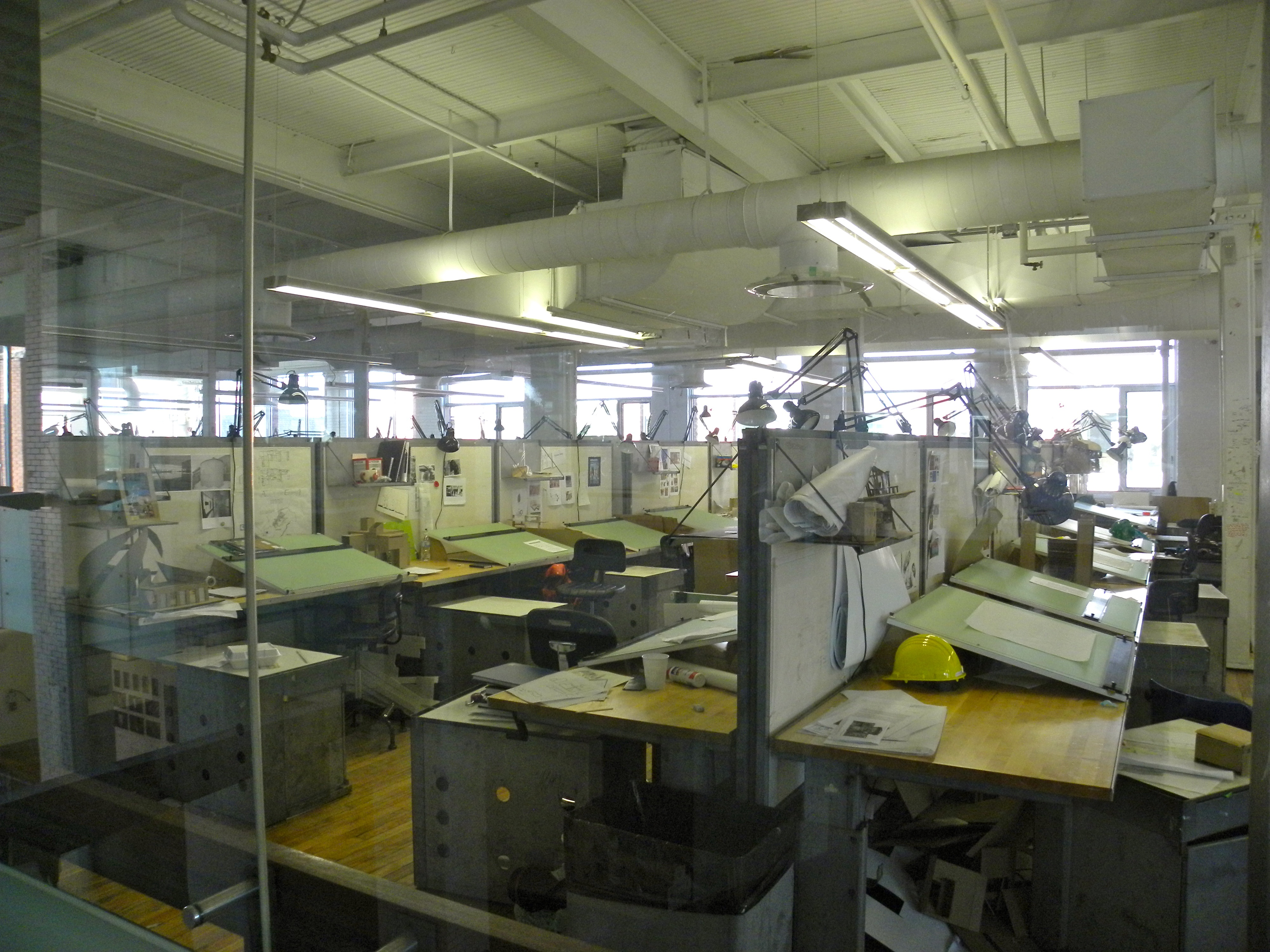 Inside the school (cont.)